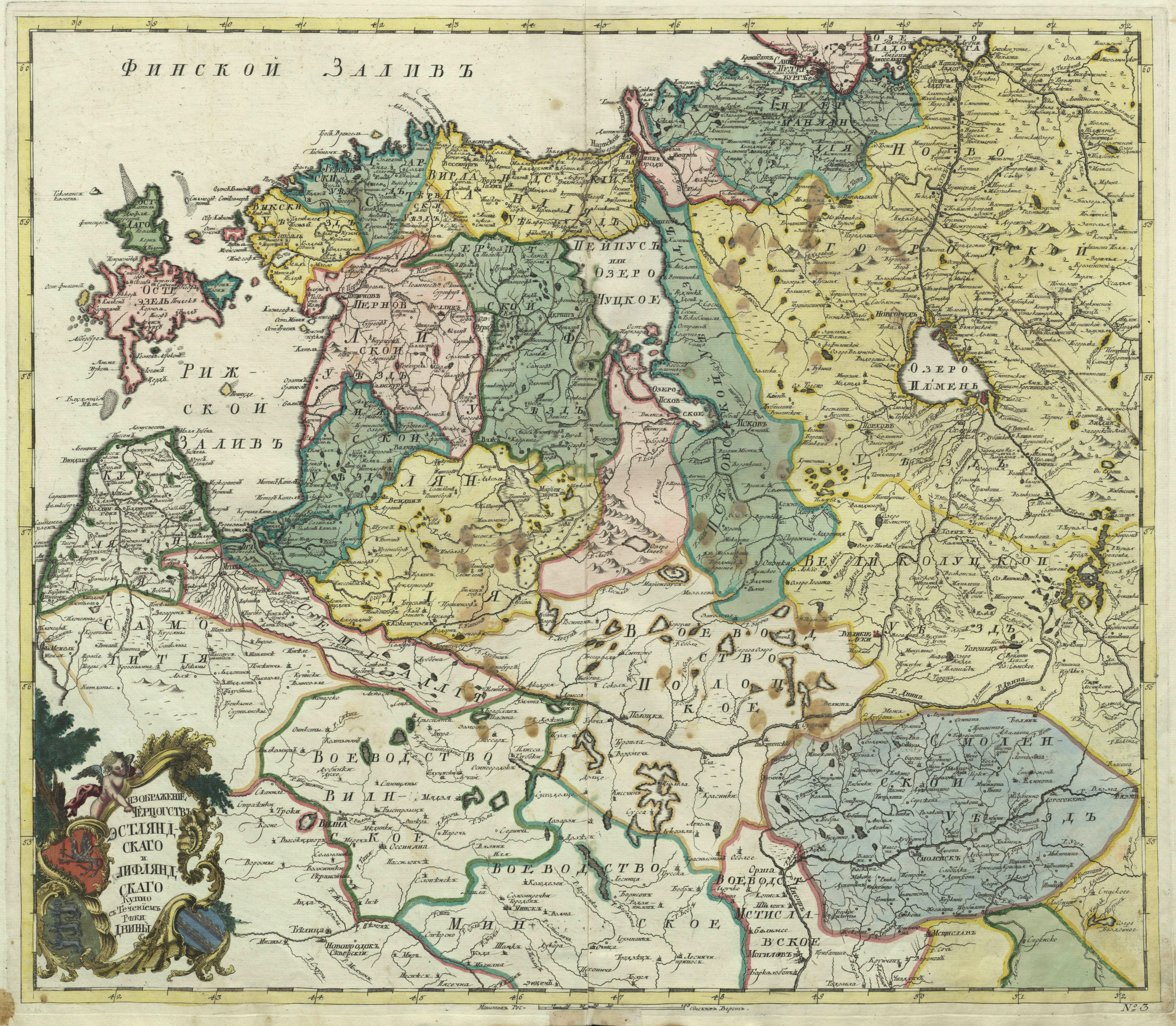 First official geographic atlas of the Russian Empire (1745). Map of Estland and Livland duchies, include Dvina river. Hand-coloured copper engraving.